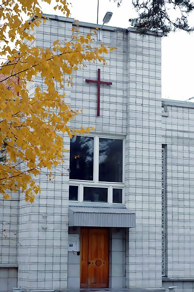 selc temple